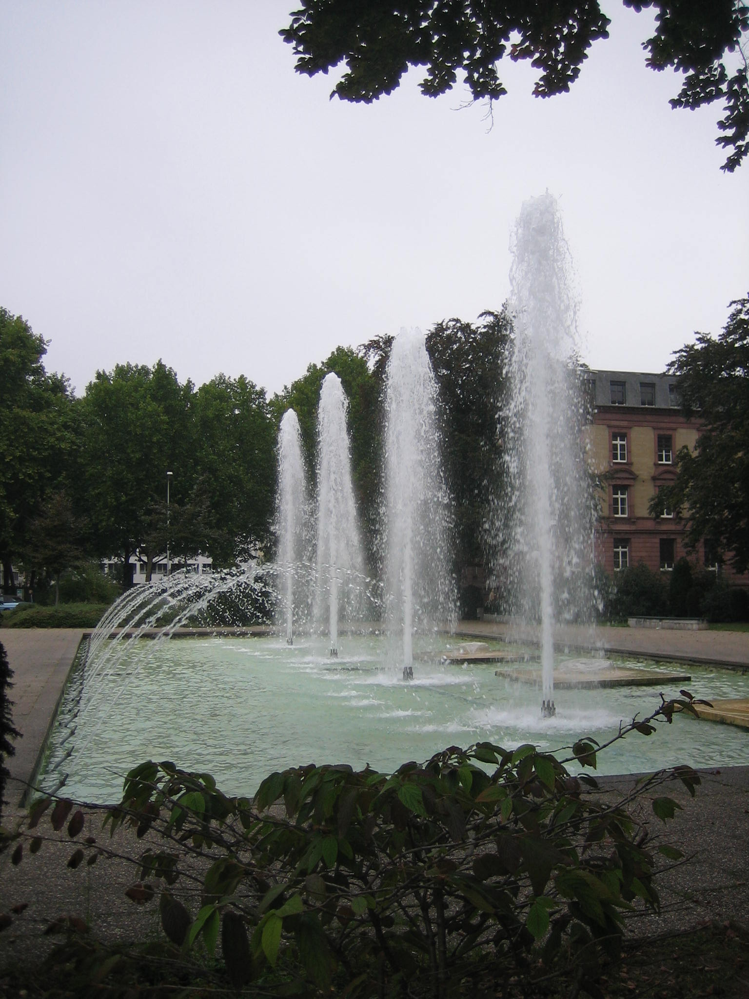 Hans-Klenk-Brunnen, the entrepreneur Hans Klenk donated this fountain in 1962 on the occasion of the 2000-years-anniversary of Mainz. It was handed over to Lord mayor Franz Stein on Pentecost 1962. The fountain is located at the green area in Kaiserstraße in front of the Christuskirche.